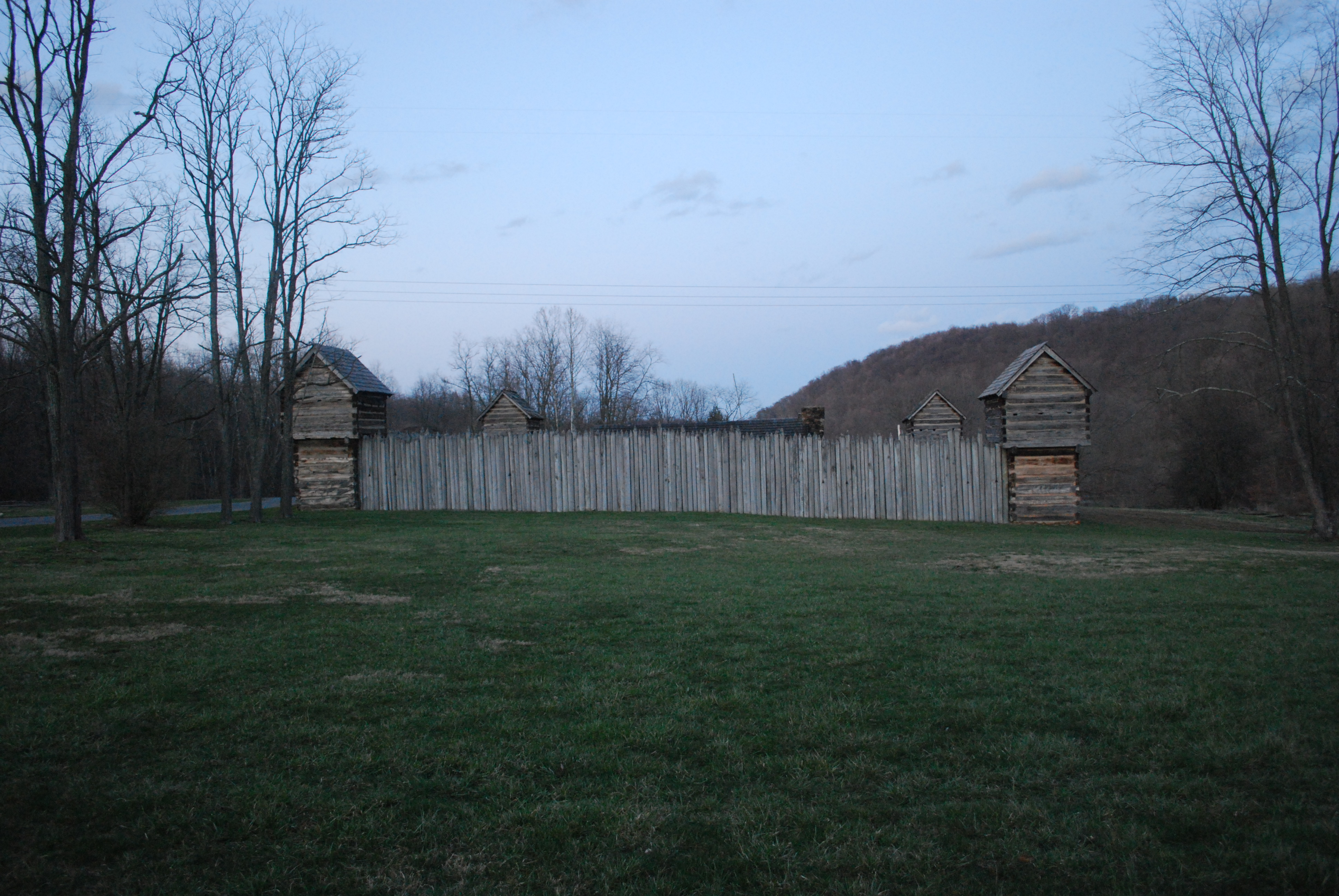 Prickett's Fort State Park in Marion County, West Virginia.